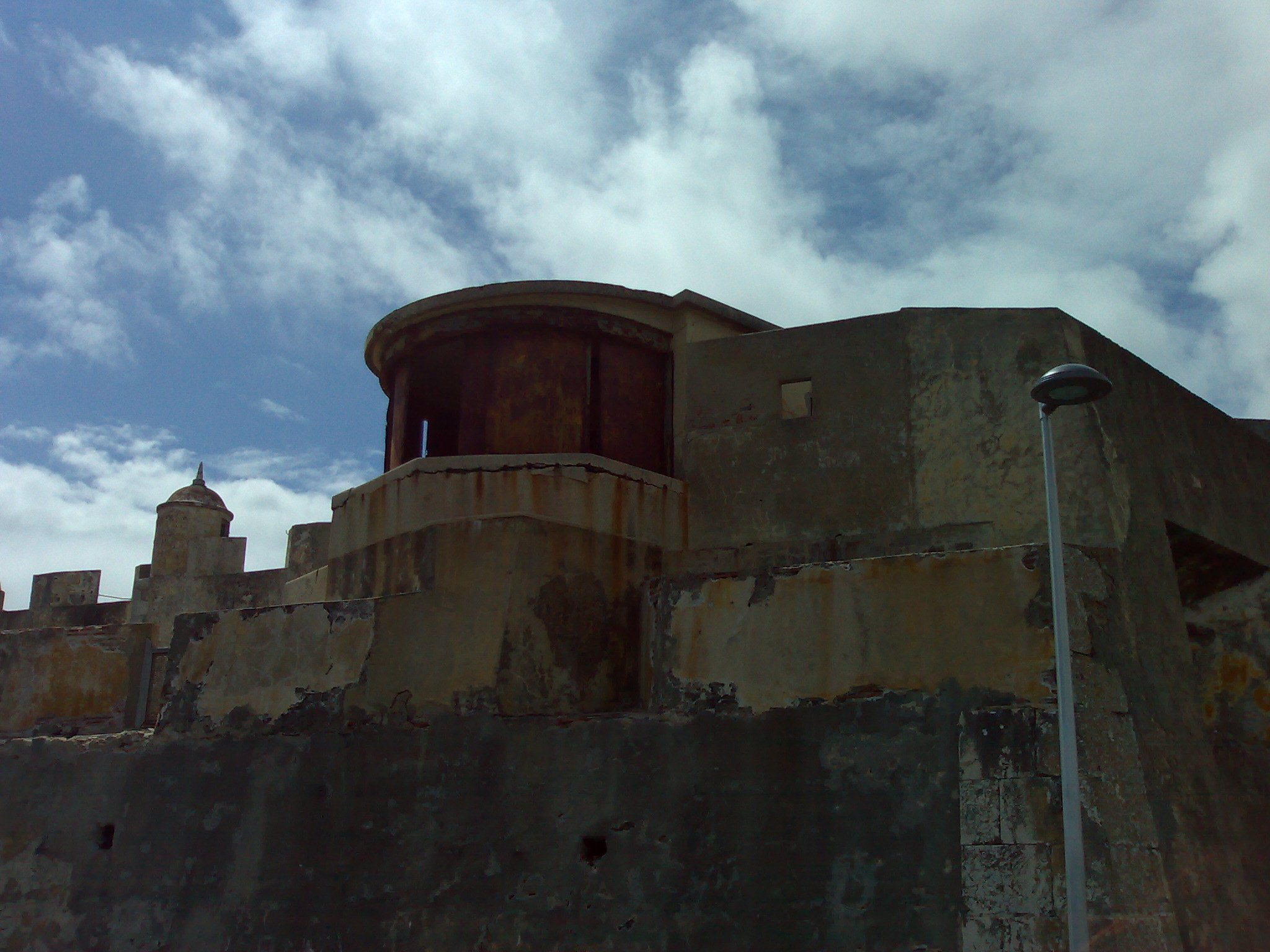 Forte de São João das Maias, a fortress in Oeiras, Portugal.